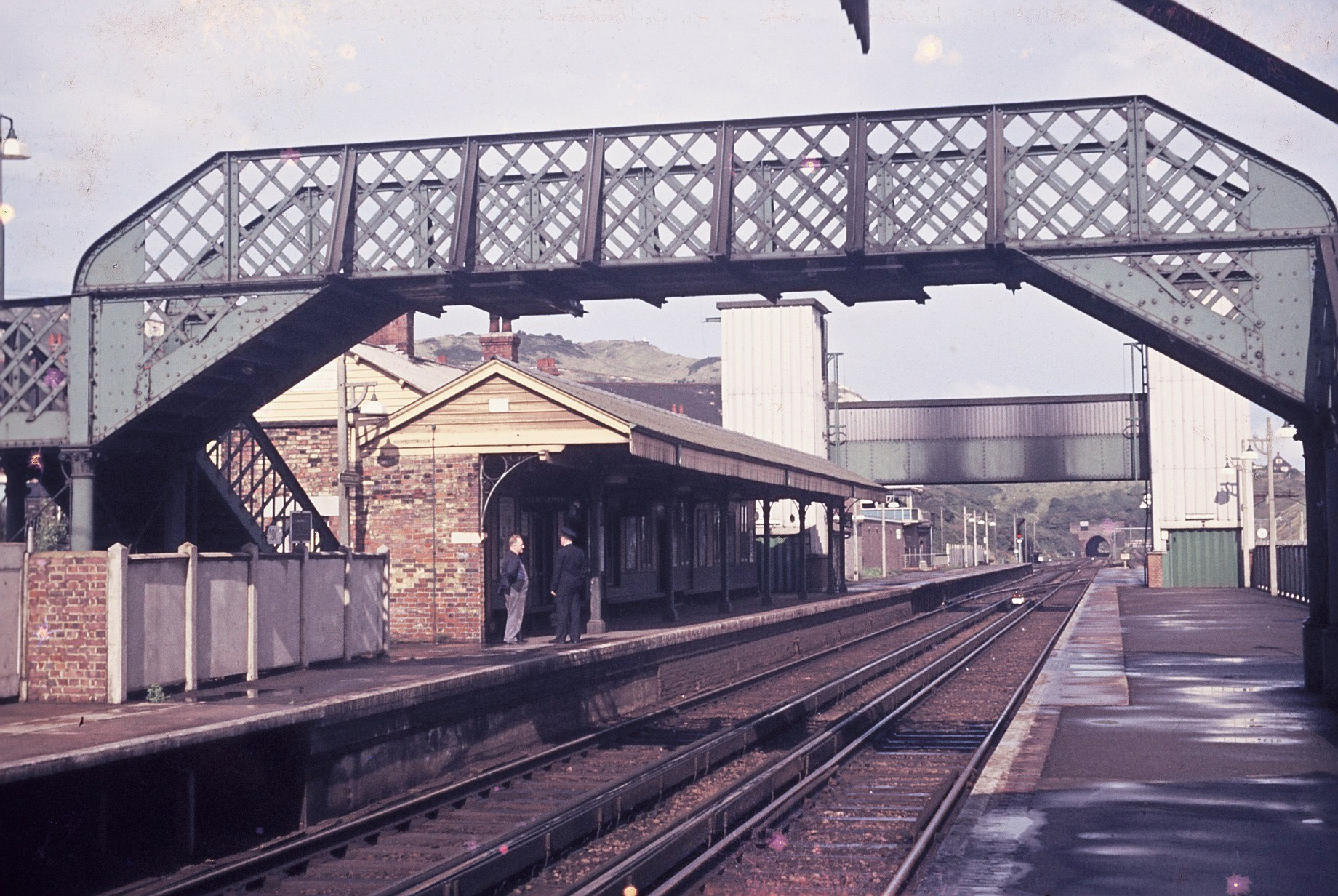 Westbound platform at Folkestone East railway station.